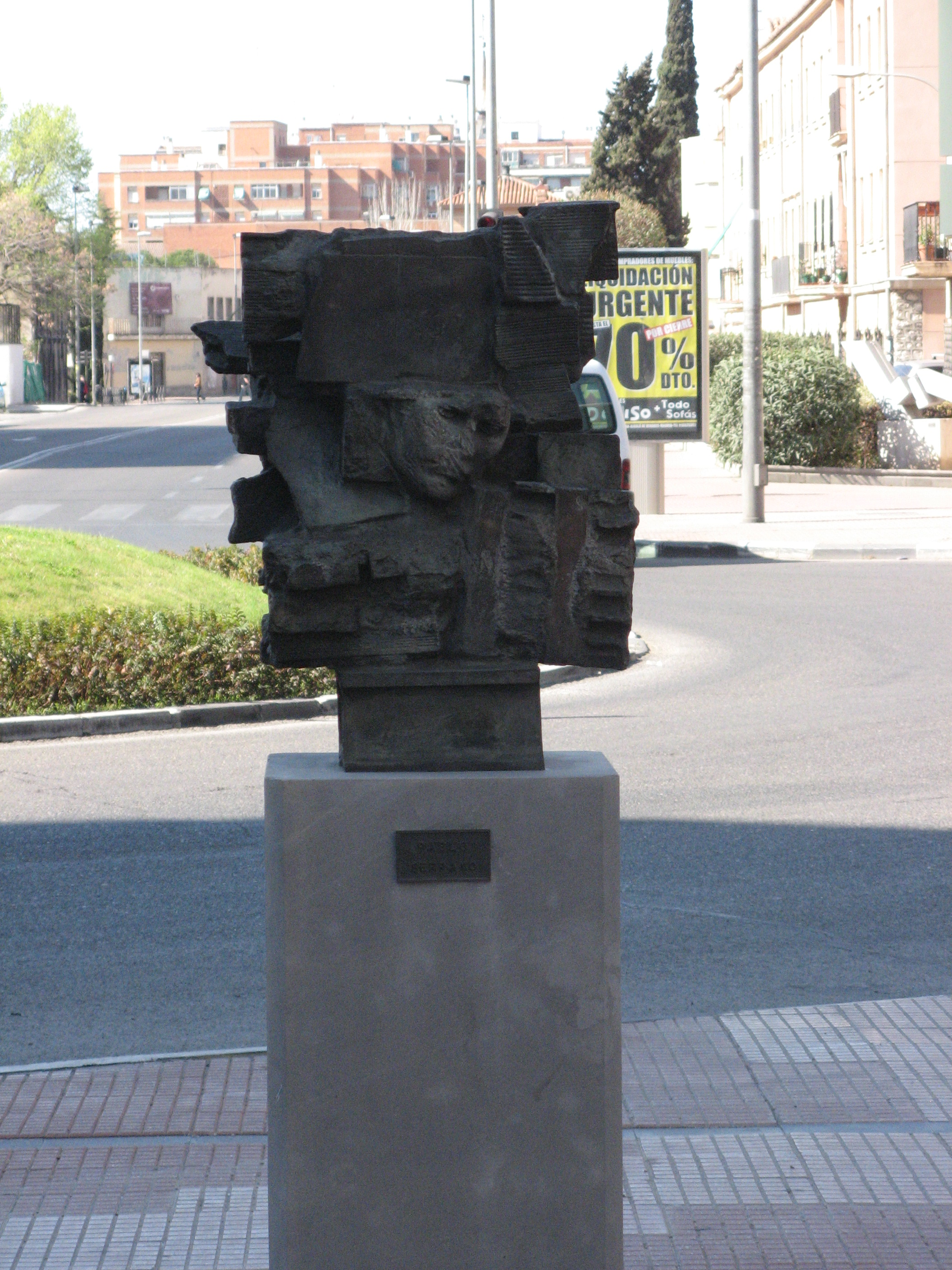 Pablo Serrano sculpture at the Museum of Outdoor Sculpture of Alcala de Henares (Community of Madrid - Spain).